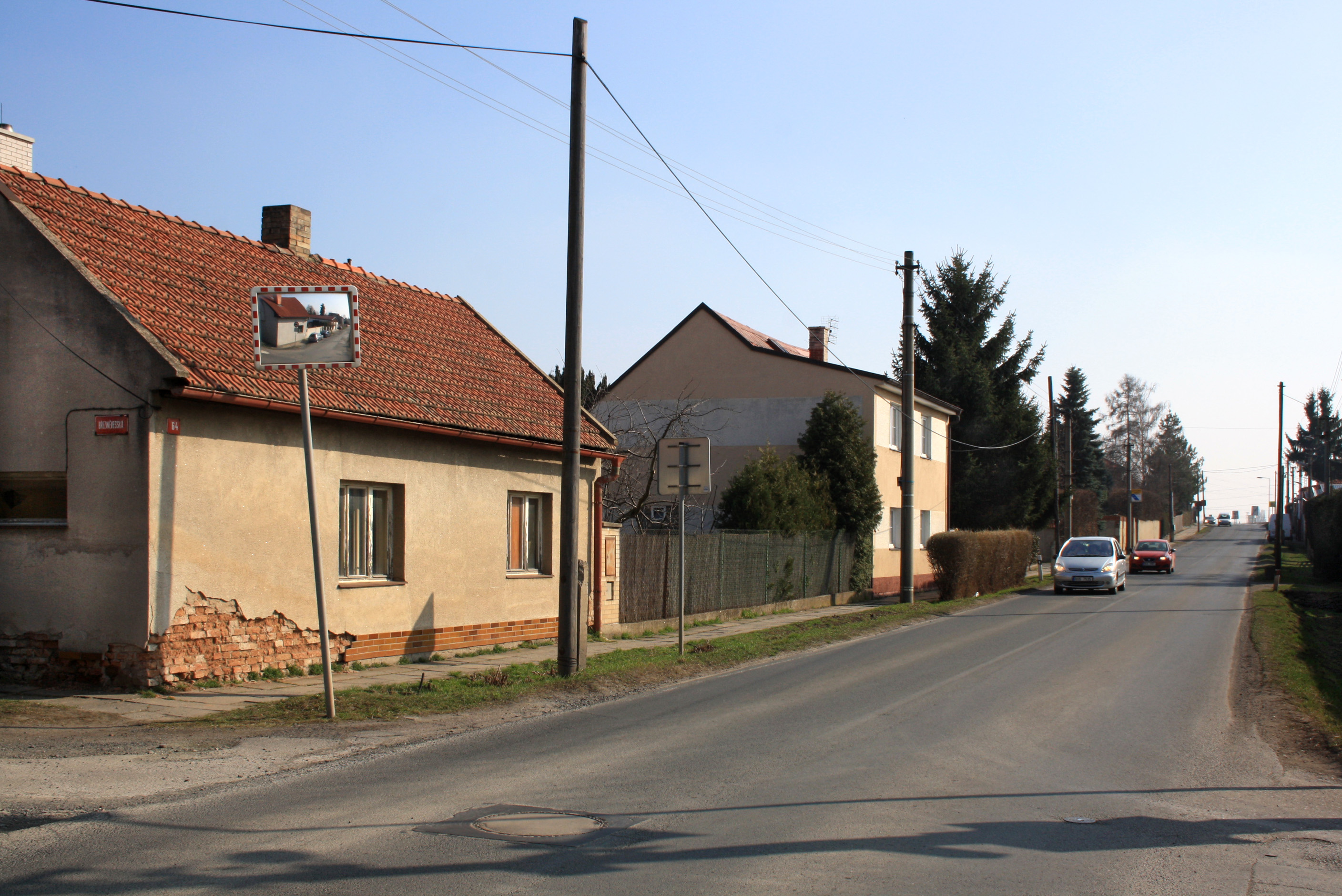 Hlavní street in Hovorčovice, Czech Republic